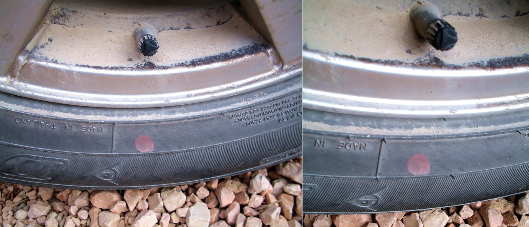 Tire, fitted with a valve position indicator by red dot.